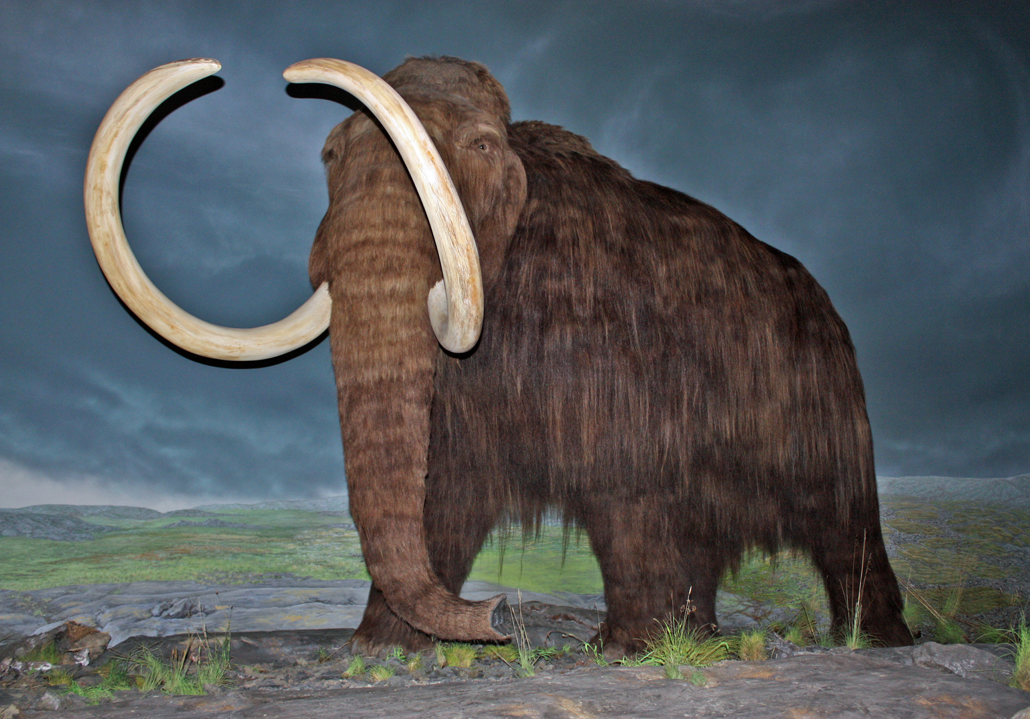 Woolly mammoth restoration at the Royal British Columbia Museum, Victoria, British Columbia.